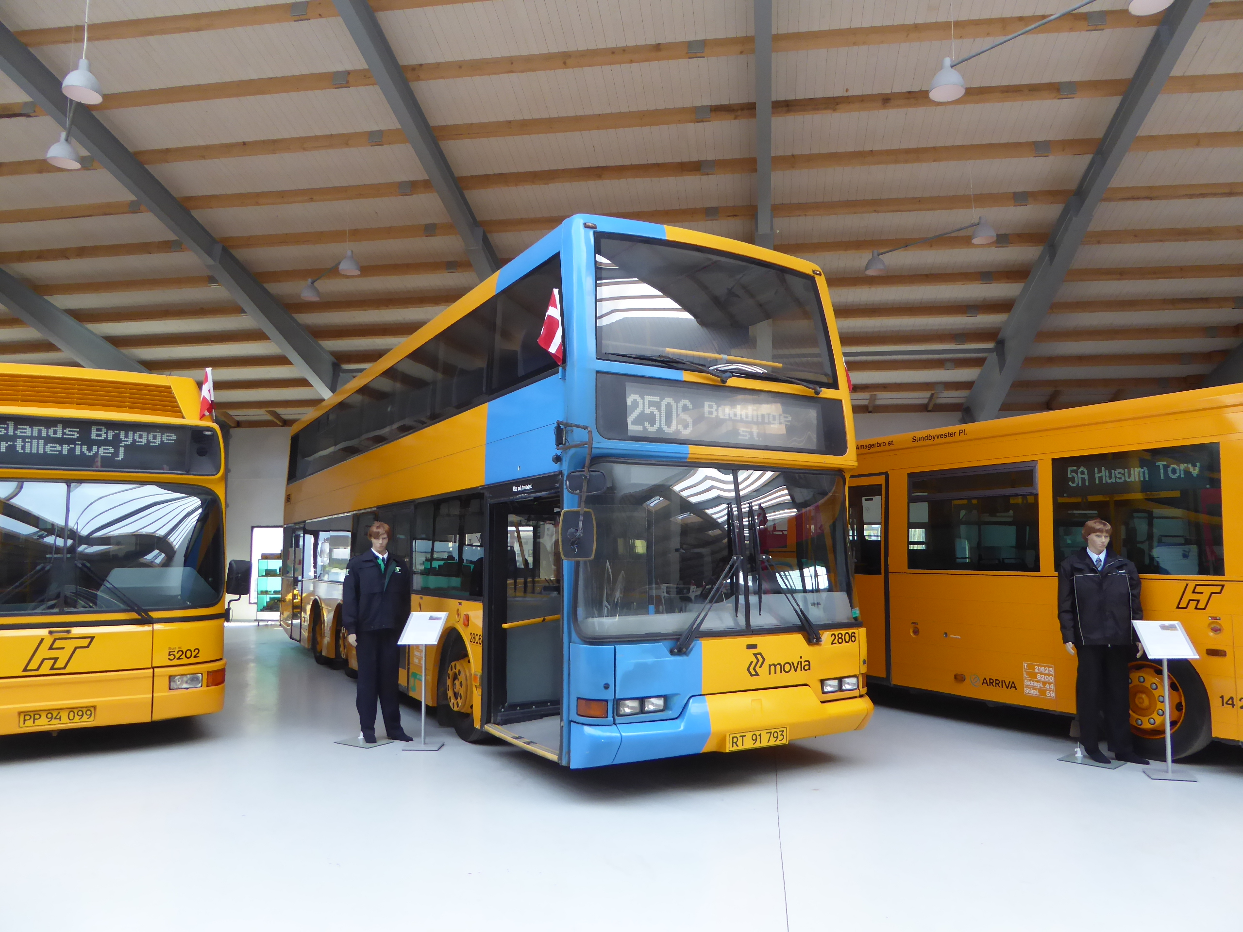 Old double-decker bus from Copenhagen, City-Trafik 2806 from 2001, in Busudstillingshallen at Sporvejsmuseet Skjoldenæsholm in Denmark.